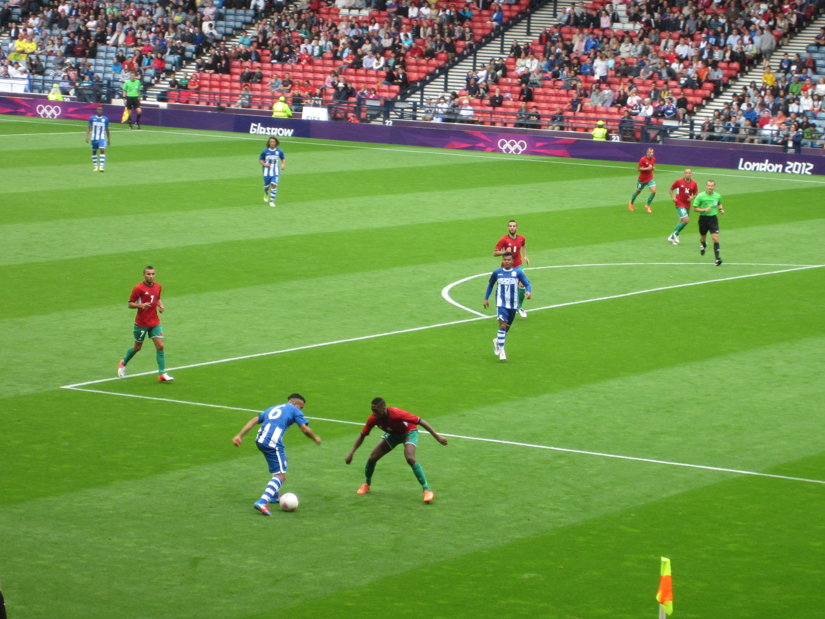 Football at the 2012 Summer Olympics – Men's tournament - Preliminary round (Honduras Vs Morocco)